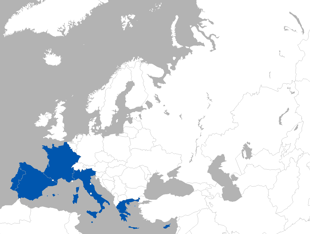 Med Group countries